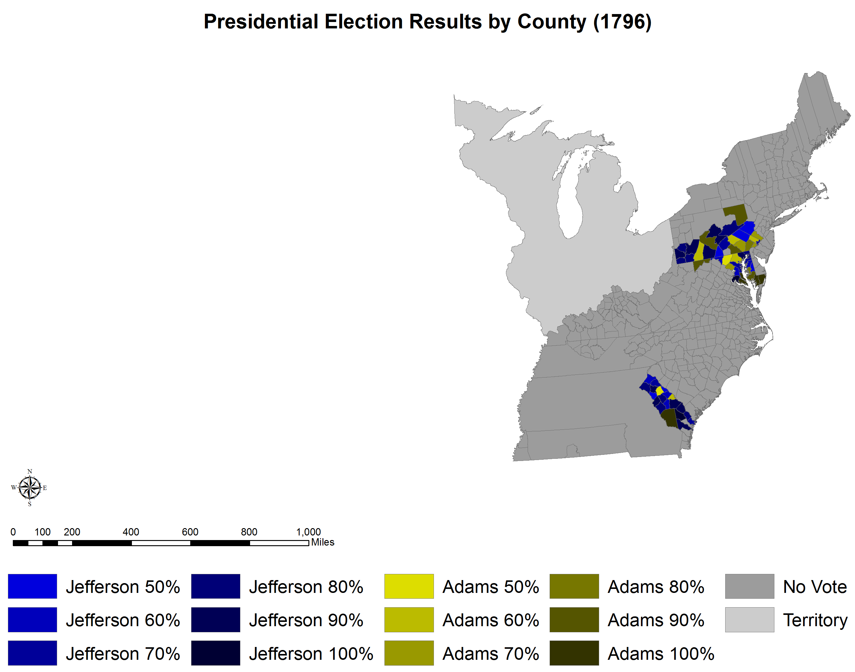 Presidential election results by county (1796).